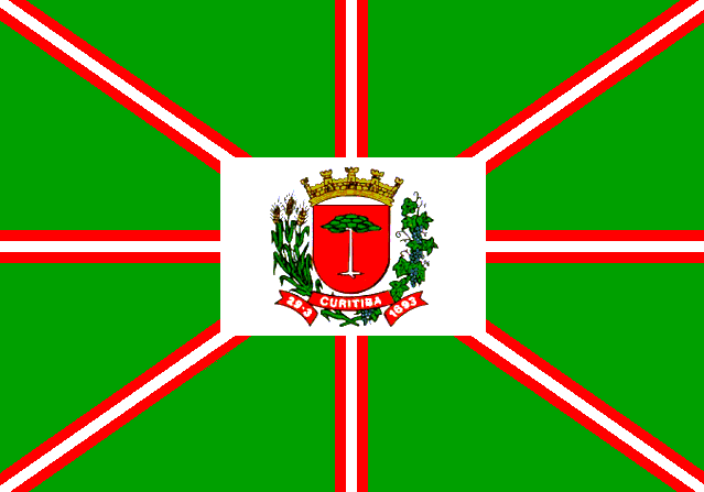 Flag of municipality of Curitiba, capital of the Brazilian state of Paraná.